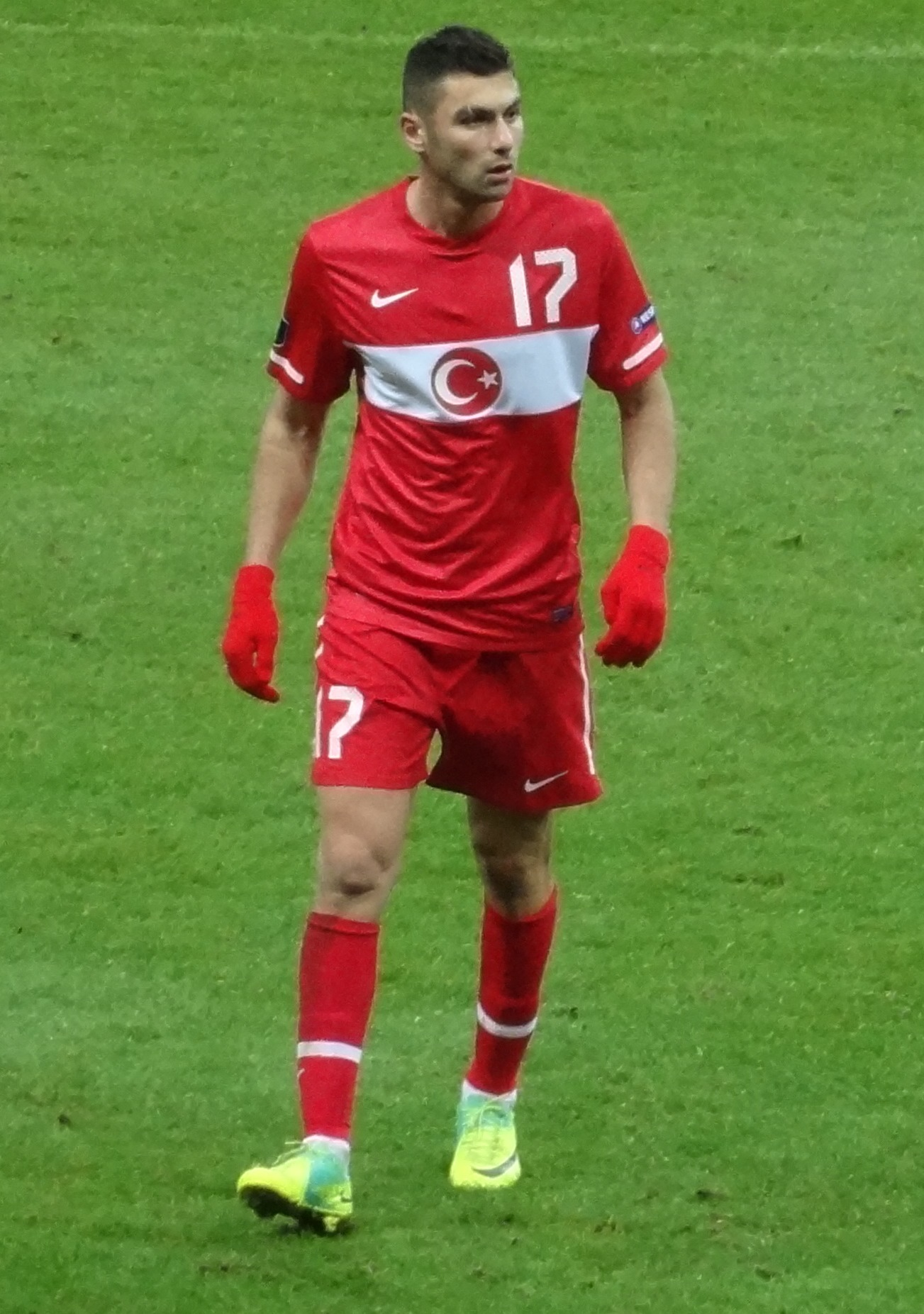 burak yılmaz playing for turkey on Croatia match